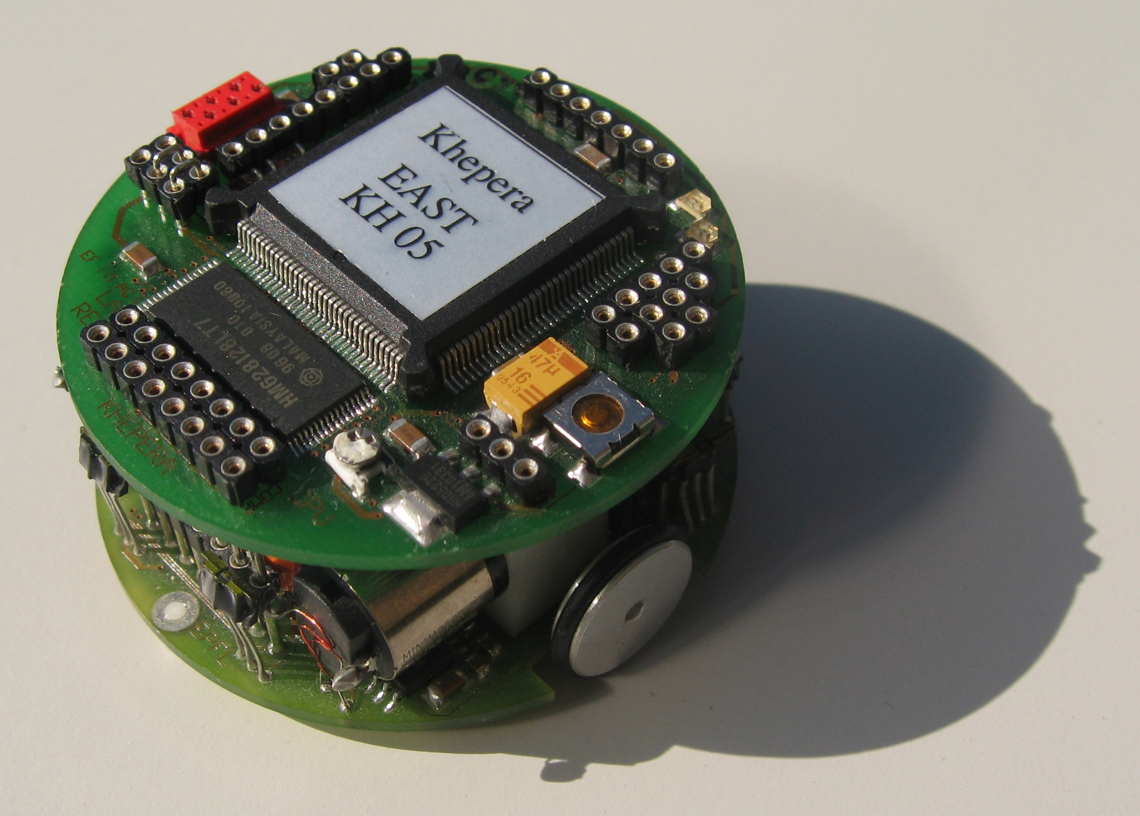 Picture of the Khepera mobile robot, taken by Stéphane Magnenat